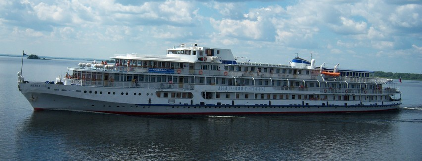 The passenger MS Anatoliy Pananow of Project 588 class, ex. K. E. Tsiolkovskiy